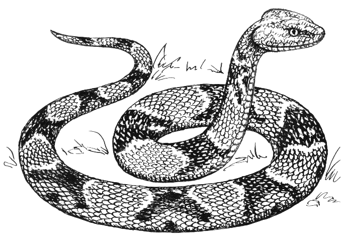 b/w line art of a copperhead